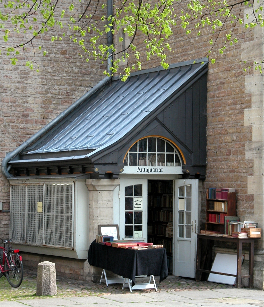 Braunschweig, Germany: Antique bookshop on Castle Square - open.